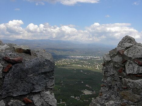 Vale of Laconia seen from the battlements of Mystras, Greece.